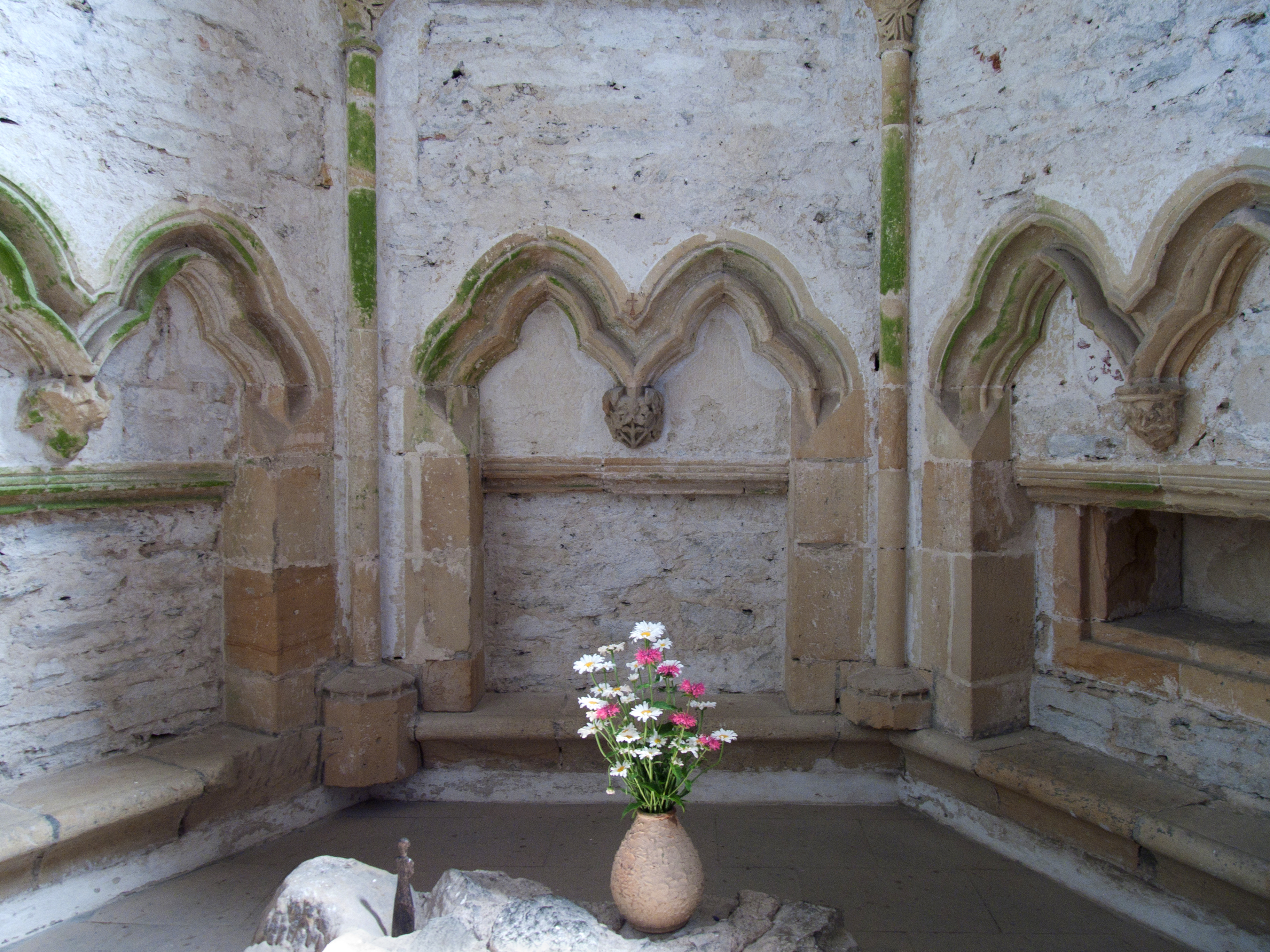 Interior of the chapel in the Bezděz Castle chapel, Česká Lípa District, Czech Republic